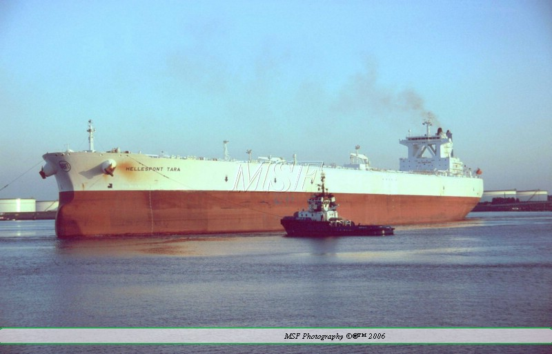 This is a picture from the ship now known as TI Europe here seen as Hellespont Tara. This is a shot taken by Maurice F Scholten from MSF Photography Netherlands June 24 2005 17:45 at Rotterdam Mainport in The Netherlands and this is just before the renaming to TI Europe picture is taken on the last day she was called Hellespont Tara. The picture is also to sse at this is a direct link here are some specs: Name: TI Europa IMO No: 9235268 Ex: Hellespont Tara-2004 Built: 11/2002 Type: Tanker Status: In Service SubType: Crude Flag: Marshall Islands DWT: 442,470 Draft: 24.50 Builder: Daewoo Heavy Industries (5202) GT: 235,000 LOA: 380.00 Owner: Hellespont Steamship NT: - Beam: 68.00 Speed/Cons: 17.90/141.00 Class: AB Depth: 34.00 Engine Type: Sulzer Cubic: - greetzz yah all